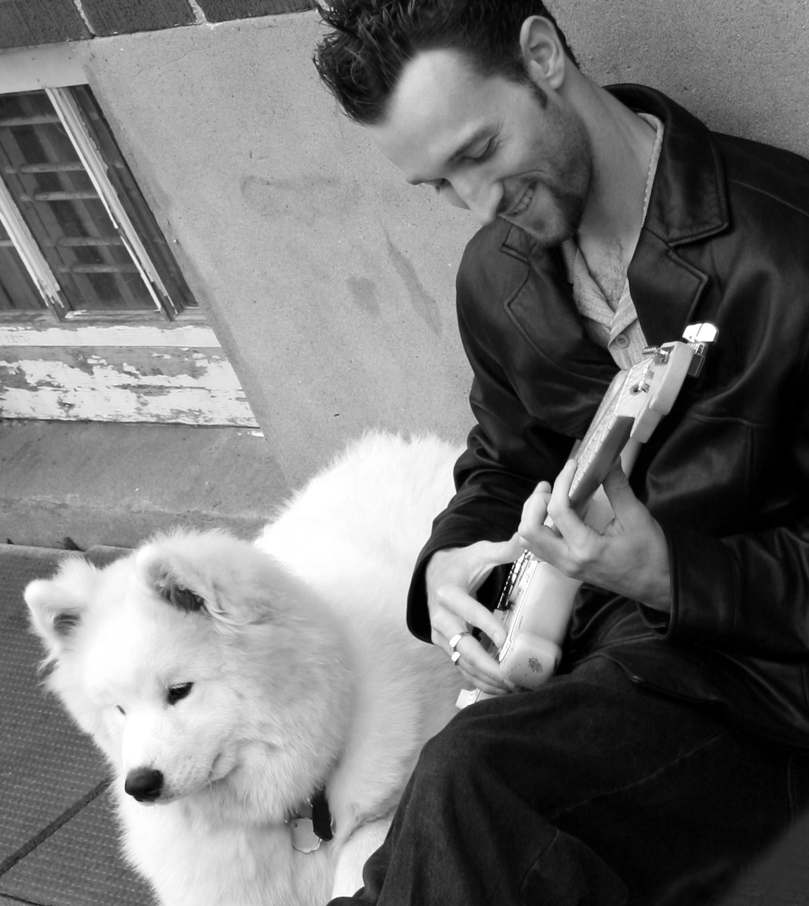 author